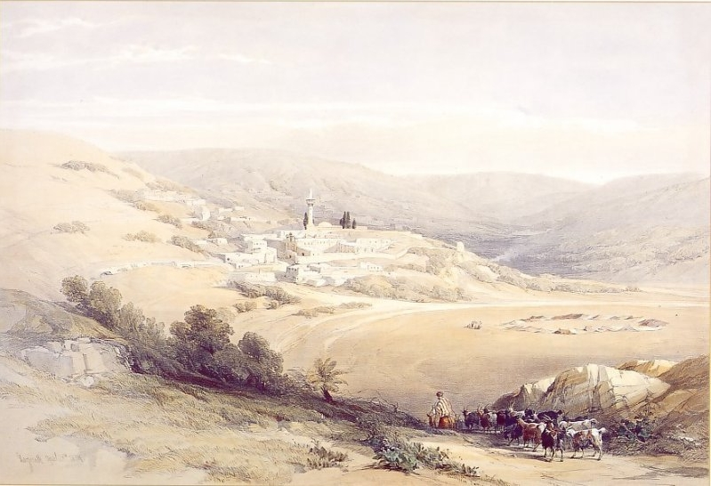 view of Nazareth